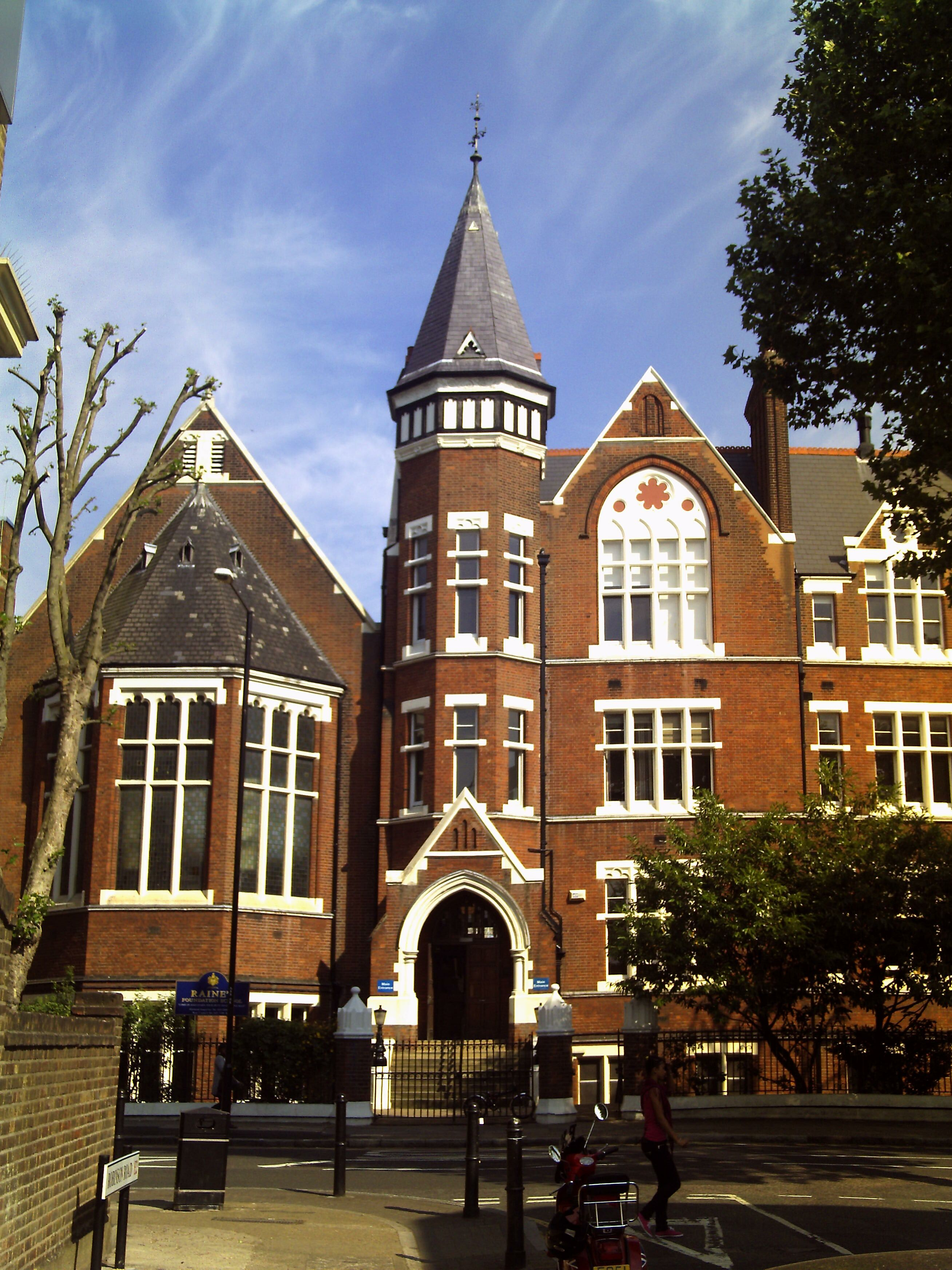 View of Raine's Foundation School, Approach Road Site, Tower Hamlets, London, UK.